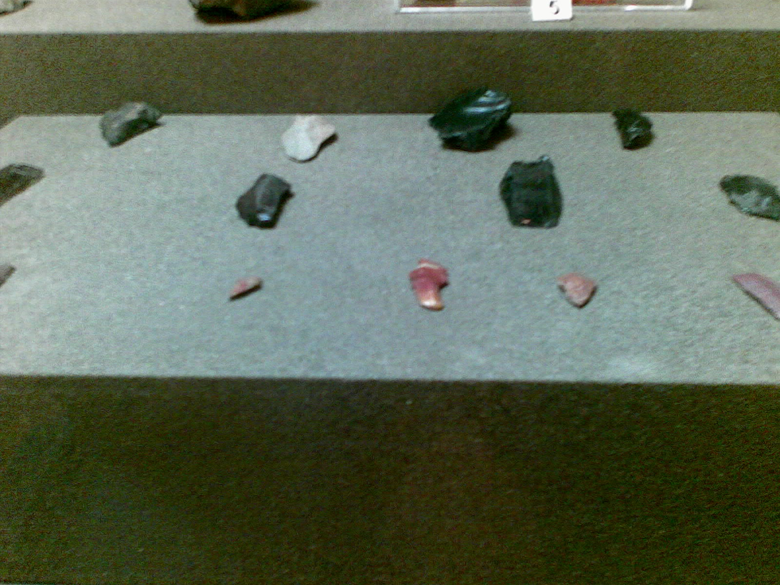 Stone Age artefacts from Damjili cave (Azerbaijan)